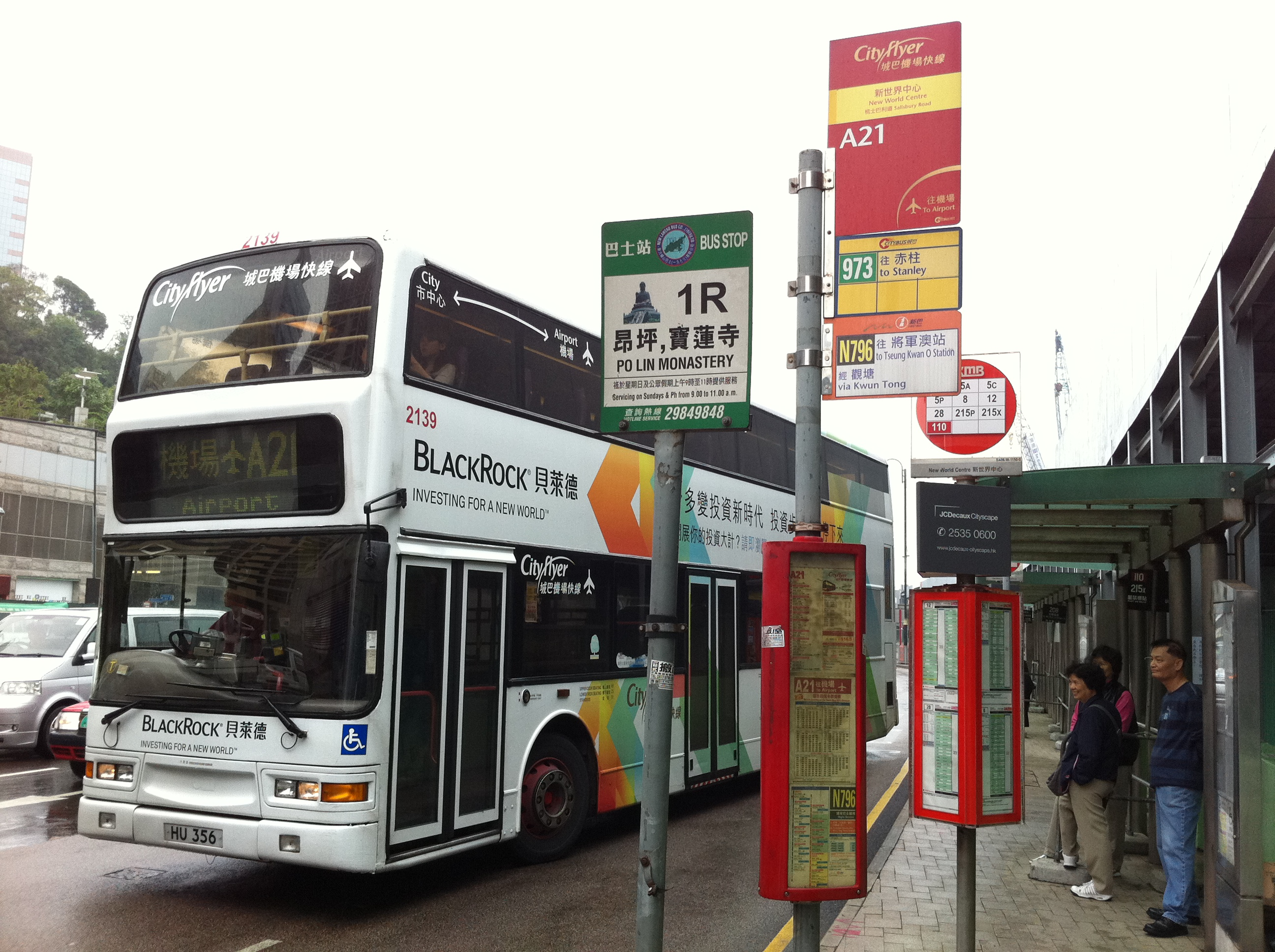 Salisbury Road, Tsim Sha Tsui, Hong Kong